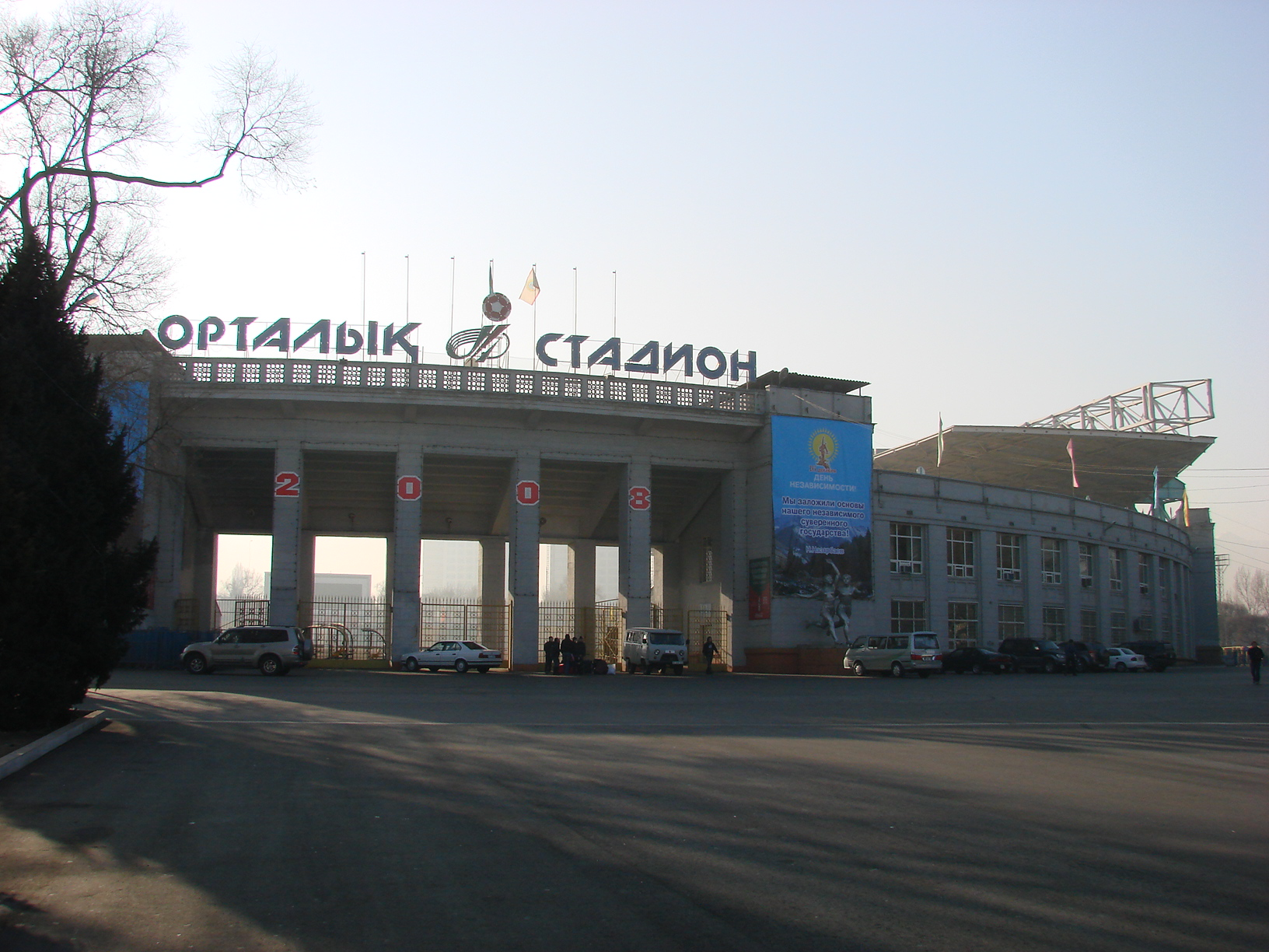 Central Stadium in Almaty